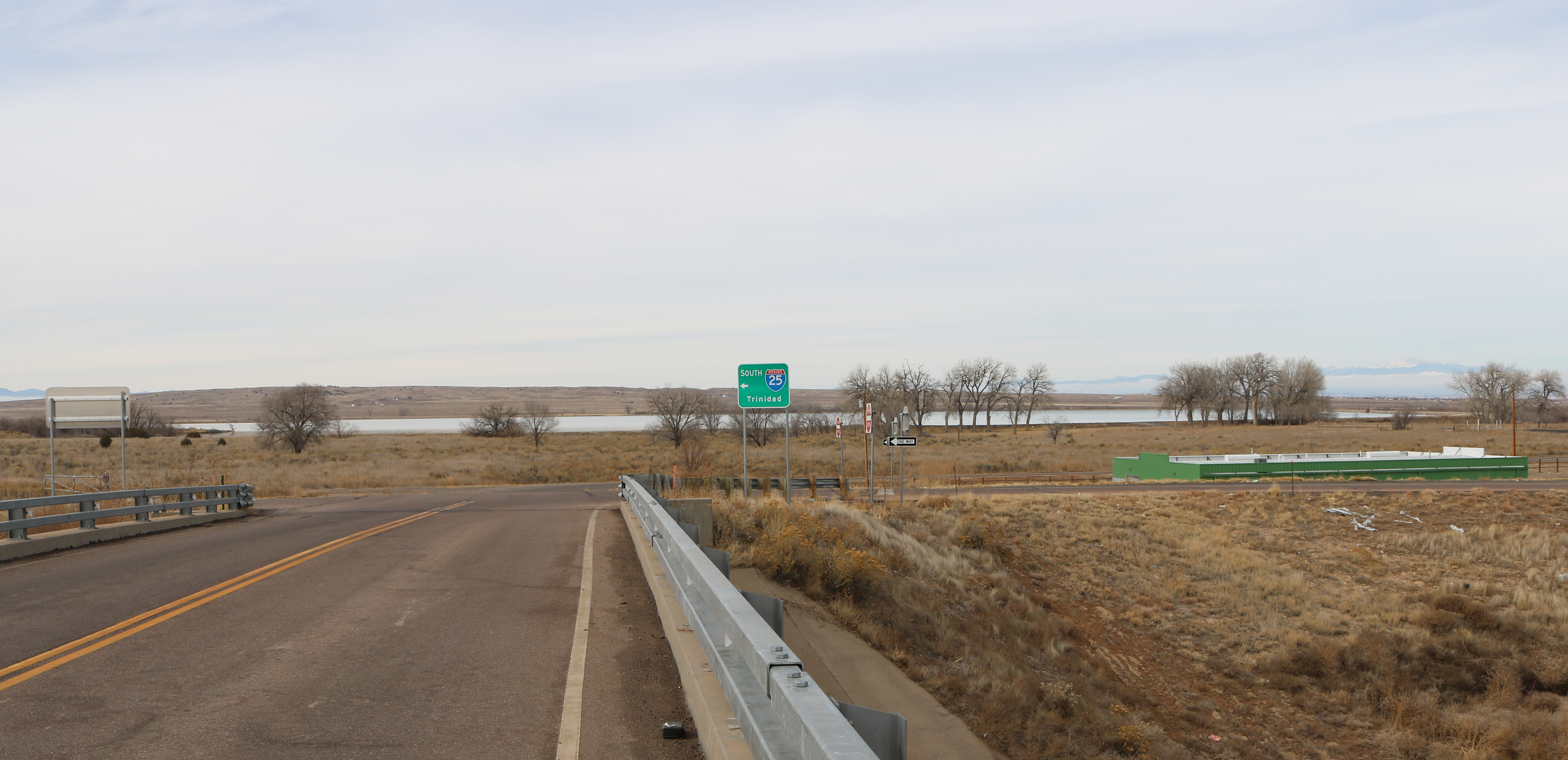 Saint Charles Reservoir Number 3 in Pueblo County, Colorado. The view is from the Stem Beach overpass over Interstate 25.